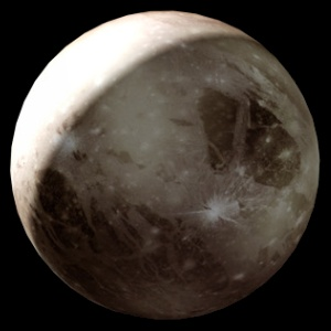 Artist's concept of Pluto